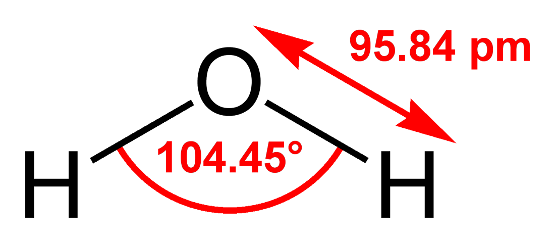 water molecule with bond lengths and angles